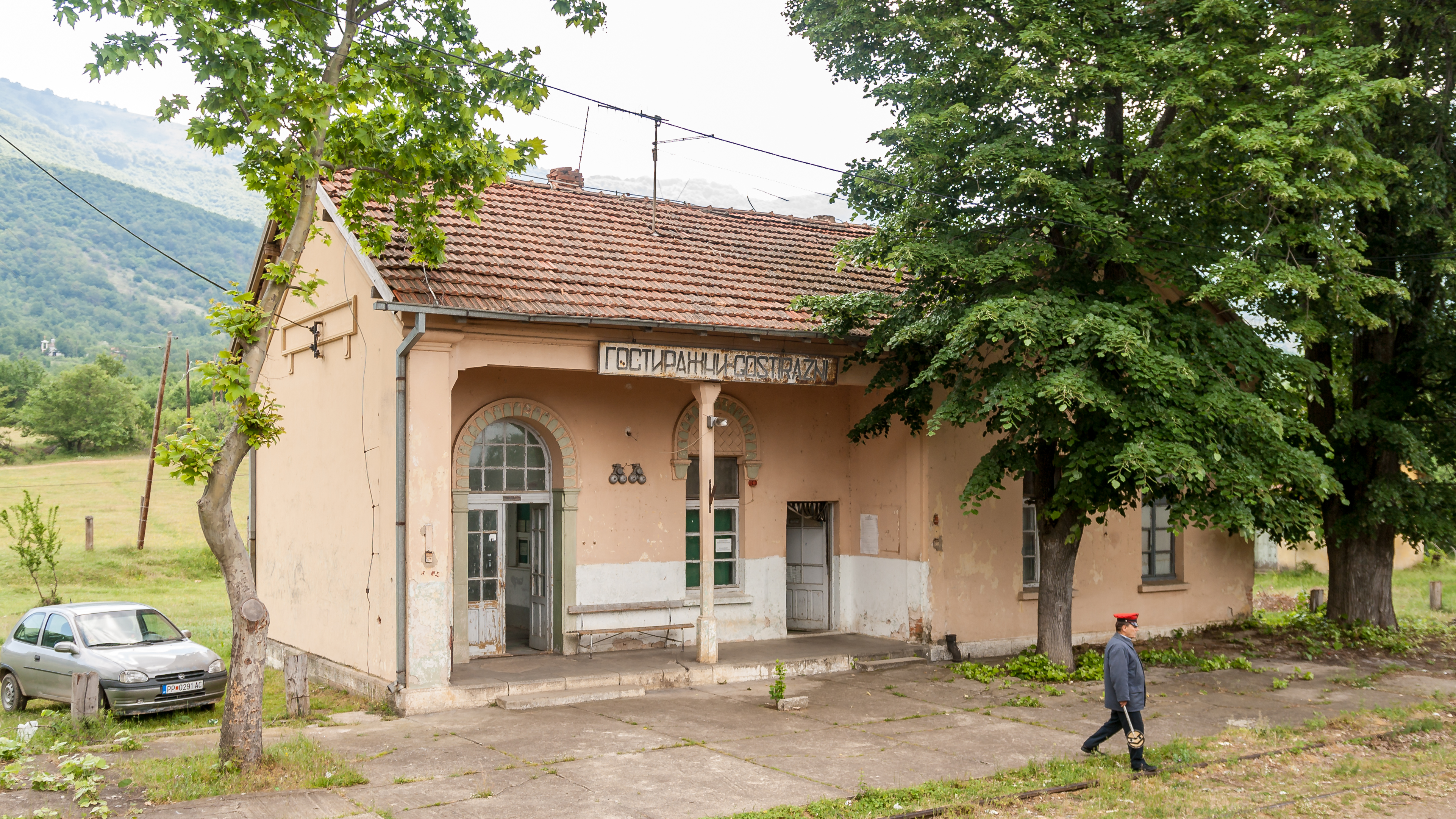 View of the Gostiražni train station